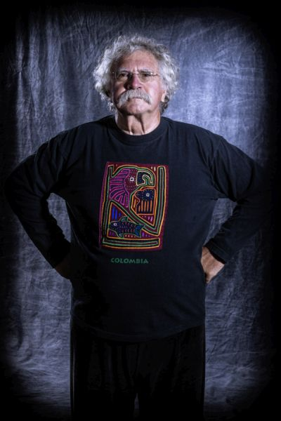 Portrait of Gerhard Drekonja